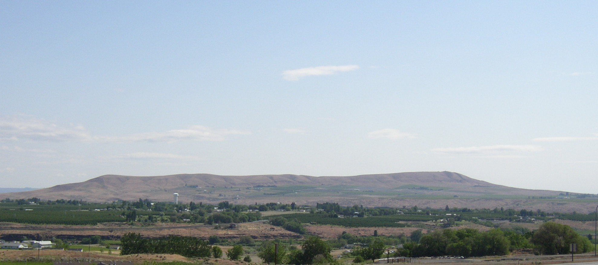 Red Mountain in Washington State as seen from the west looking eastward on a pleasant May morning in 2007. Photo taken by uploader. All rights released. Skål - Williamborg 22:40, 13 May 2007 (UTC)